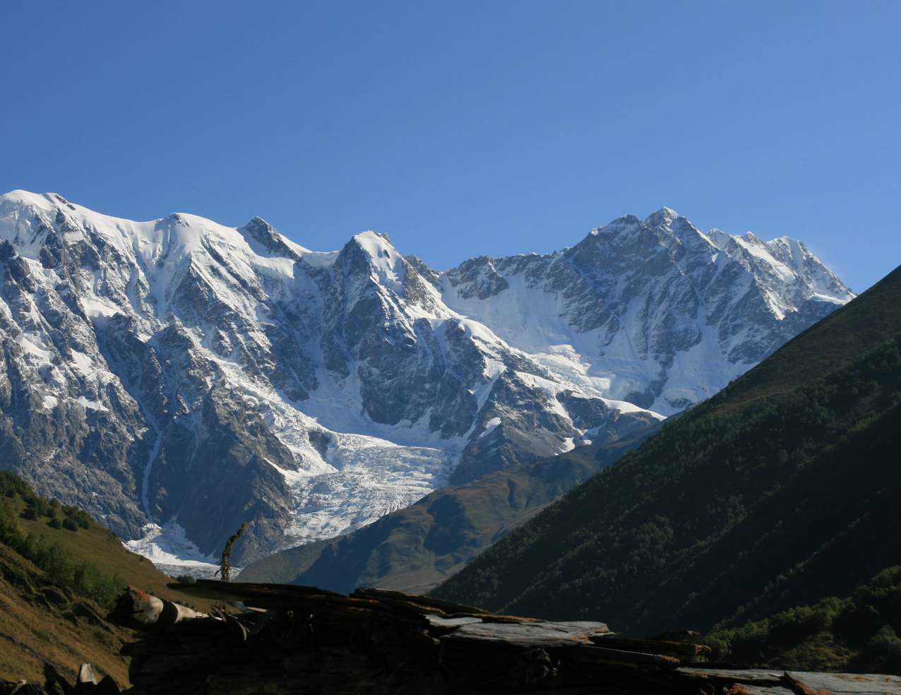 Mt Shkhara as seen from Khalde.